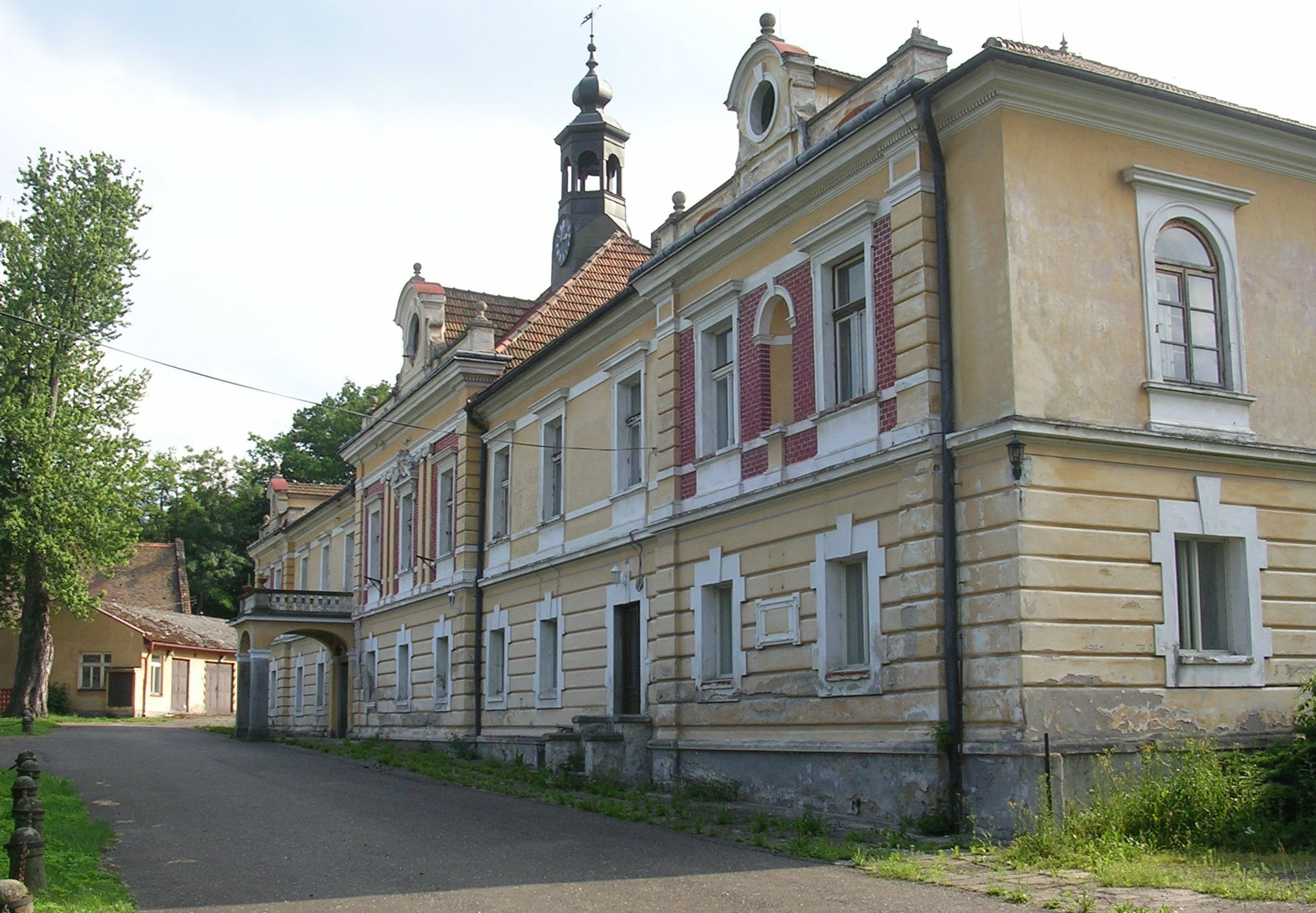 Sedlčany-Třebnice, Příbram District, Central Bohemian Region, the Czech Republic. A castle.